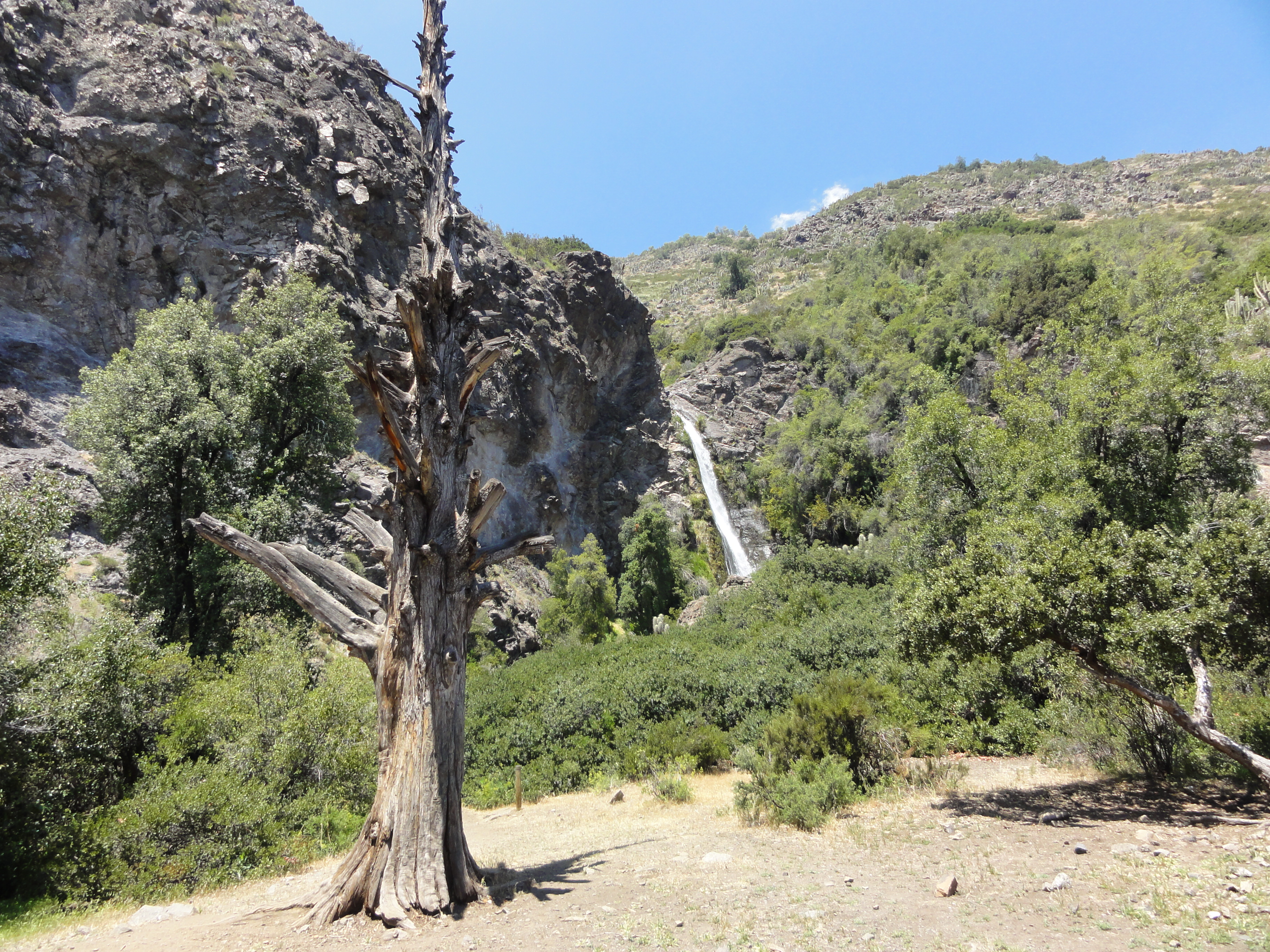 The Apoquindo Waterfall in Parque Natural Aguas de Ramón near Santiago, Chile on 21-Nov-2010.